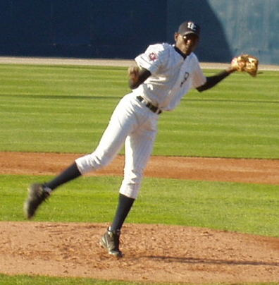 Jose Valdez delivers a pitch for the Battle Creek Yankees in April 2003.